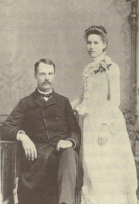 1888 wedding photo of Virgil and Jennie Partch, parents of American composer Harry Partch